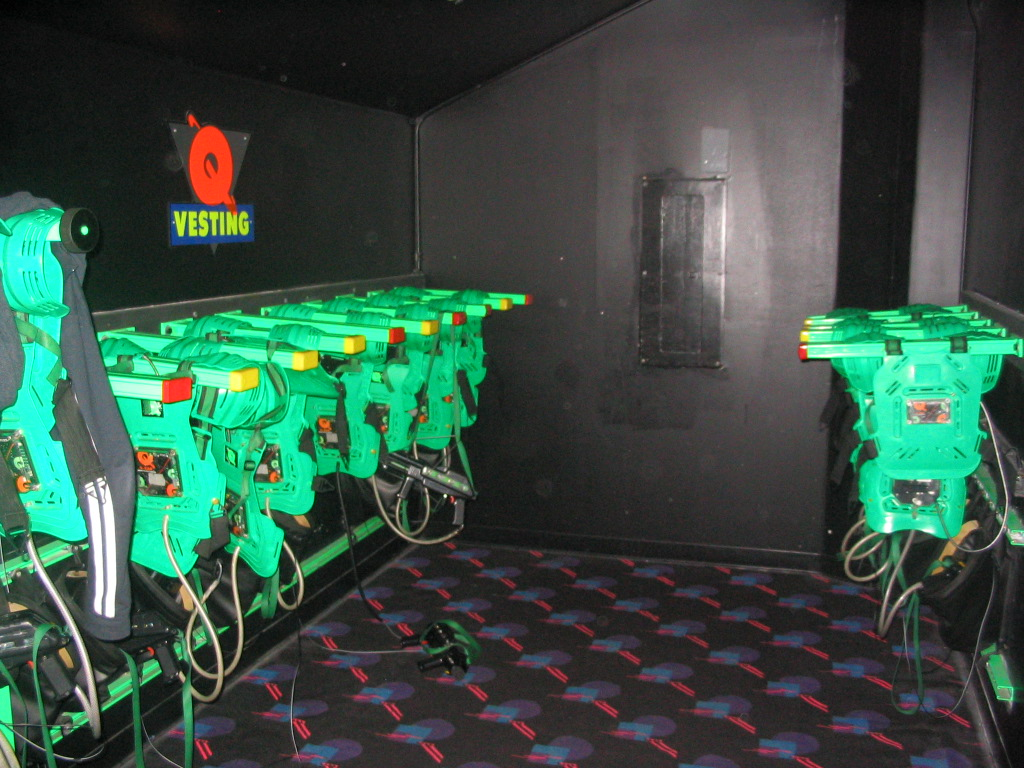 A bunch of Green Q-Zar packs hanging.